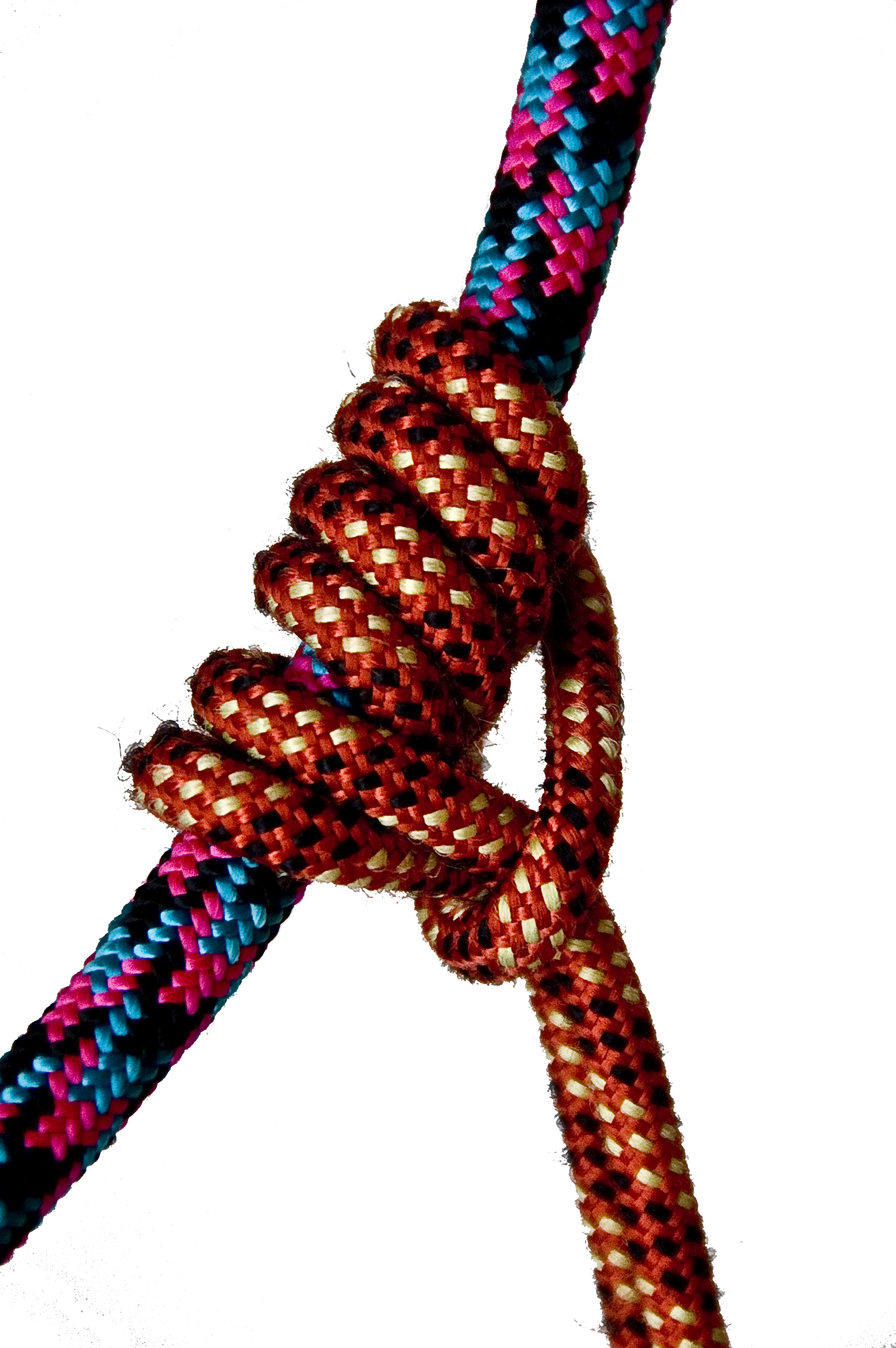 Machard knot 1 direction